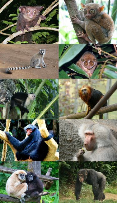 Ring-tailed Lemur (Lemur catta) at Berenty Private Reserve in Madagascar Aye-aye (Daubentonia madagascariensis)